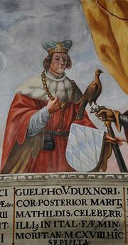 Welf II duke of Bavaria, V of the house of Welf